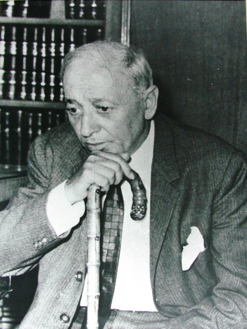 The veteran Baath Party philosopher Zaki al-Arsuzi in the early 1960s